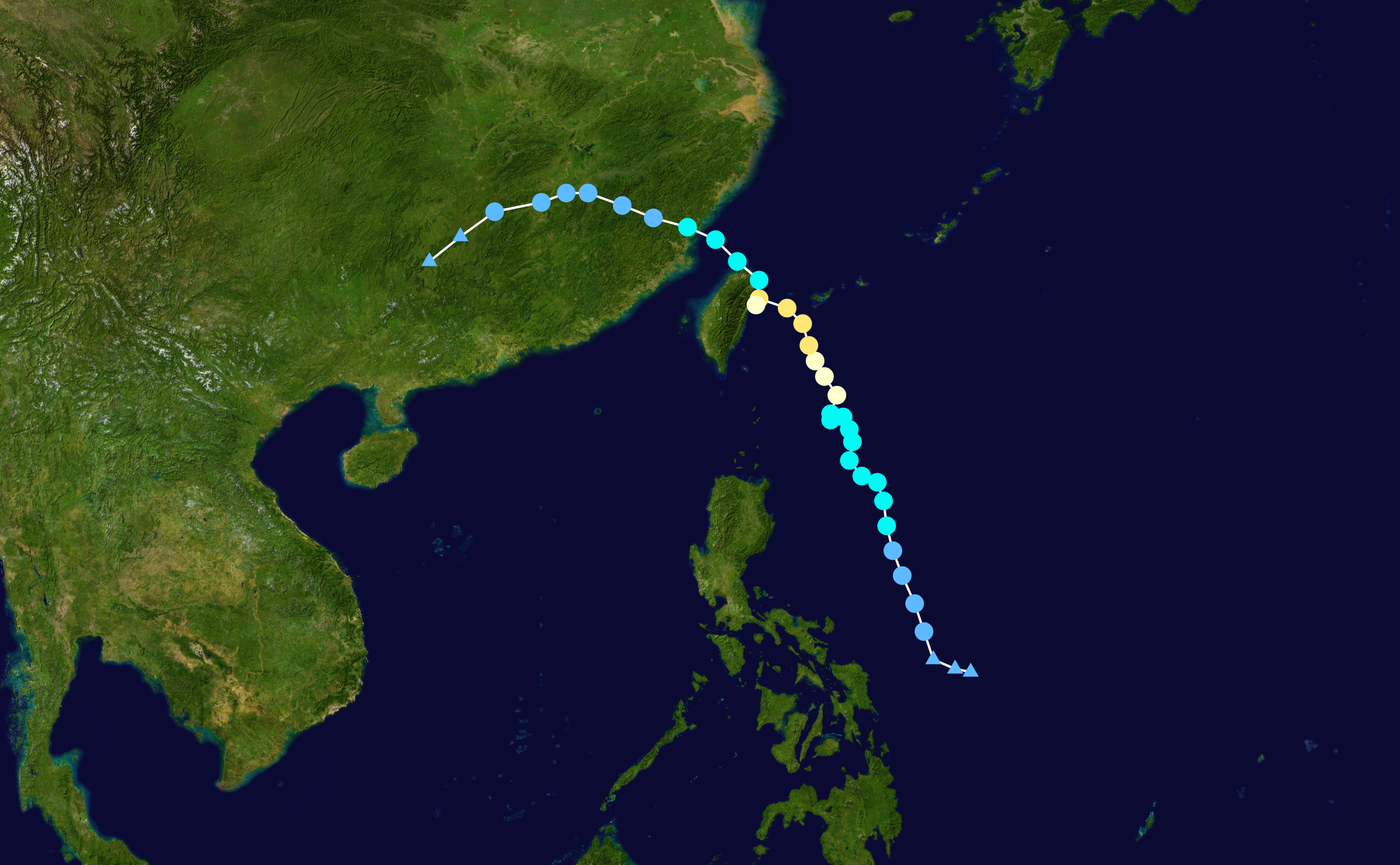 Track map of Typhoon Saola of the 2012 Pacific typhoon season. The points show the location of the storm at 6-hour intervals. The colour represents the storm's maximum sustained wind speeds as classified in the Saffir–Simpson scale (see below), and the shape of the data points represent the nature of the storm, according to the legend below. Saffir–Simpson scale Tropical depression≤38 mph≤62 km/h Category 3111–129 mph178–208 km/h Tropical storm39–73 mph63–118 km/h Category 4130–156 mph209–251 km/h Category 174–95 mph119–153 km/h Category 5≥157 mph≥252 km/h Category 296–110 mph154–177 km/h Unknown Storm type Tropical cyclone Subtropical cyclone Extratropical cyclone / Remnant low / Tropical disturbance / Monsoon depression